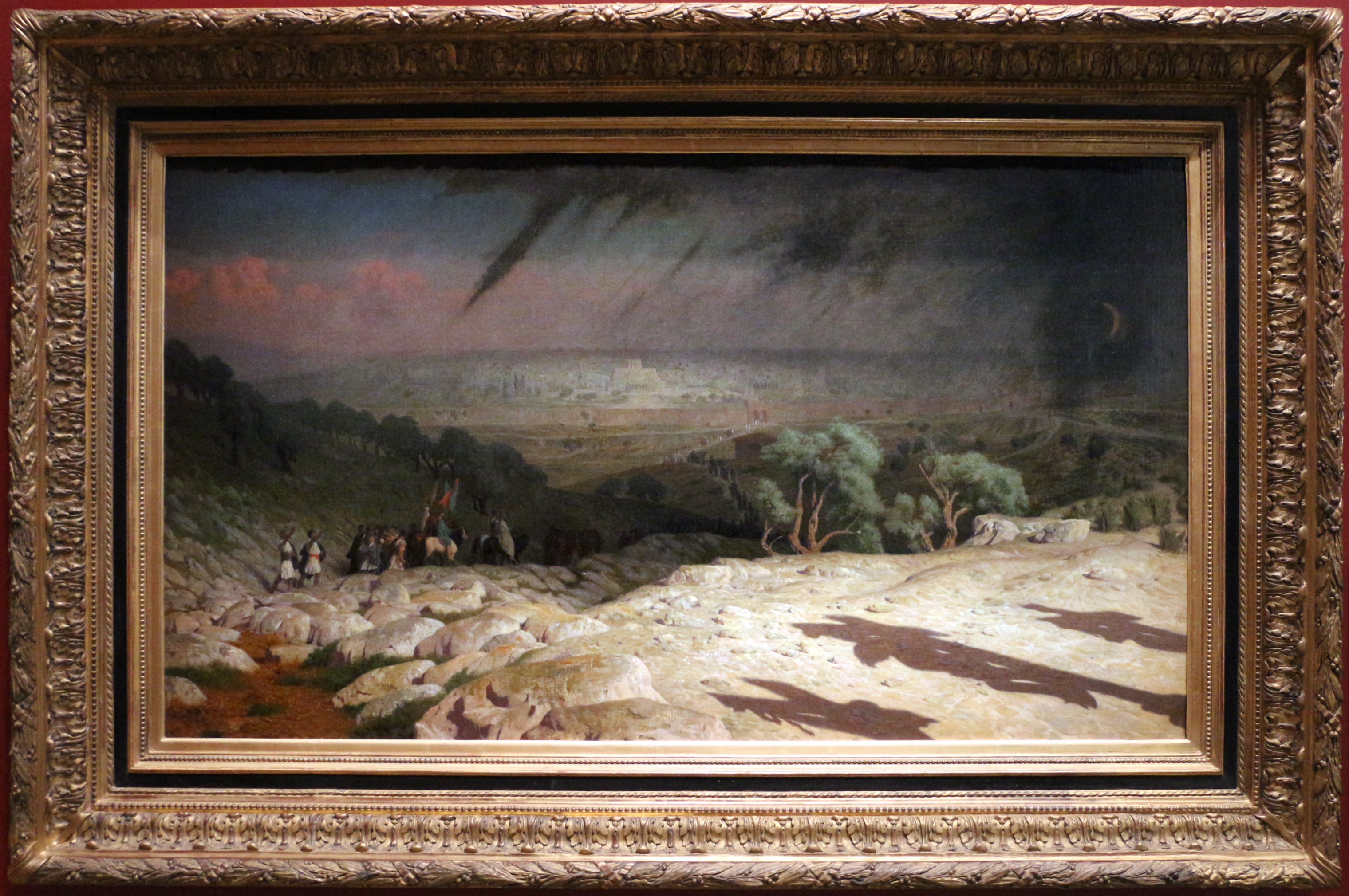 Paintings in Musée d'Orsay